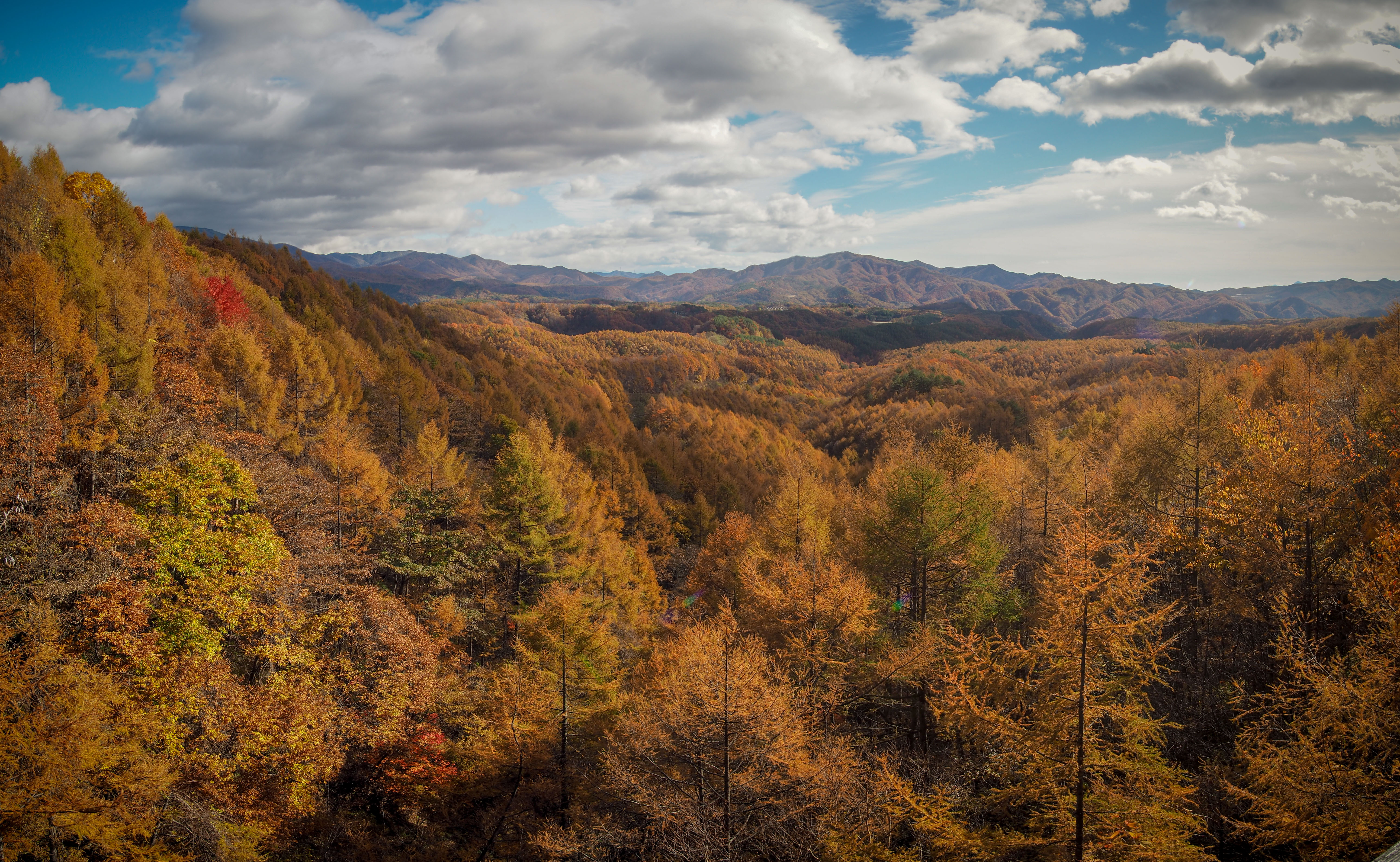 Autumn colours in Kusatsu Machi, Agatsuma District, Gunma Prefecture, Japan